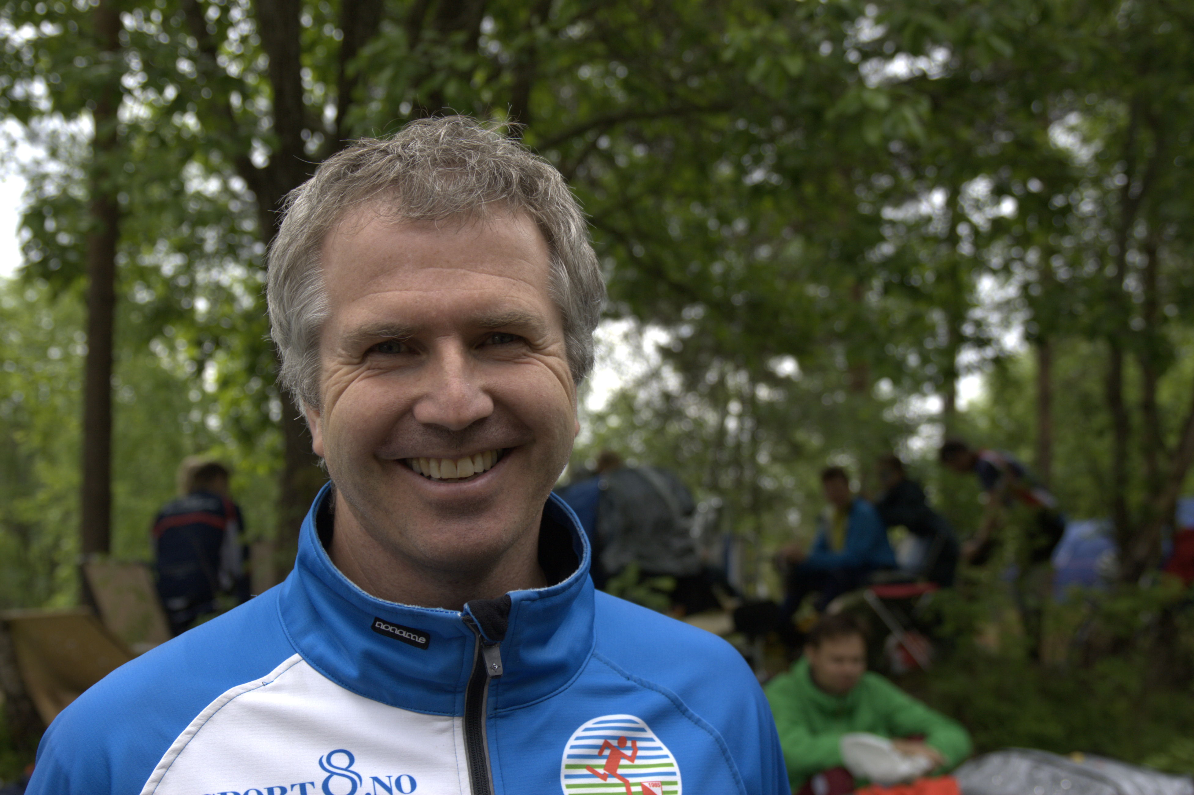 Vidar Benjaminsen pictured while he organized an orienteering race.